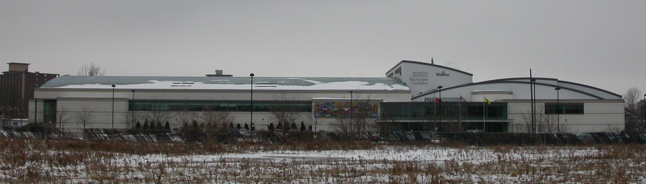 Waterloo Memorial Recreation Complex. Photograph taken December 27, 2005 by James Yolkowski (User:JYolkowski). Copyright 2005, James Yolkowski.